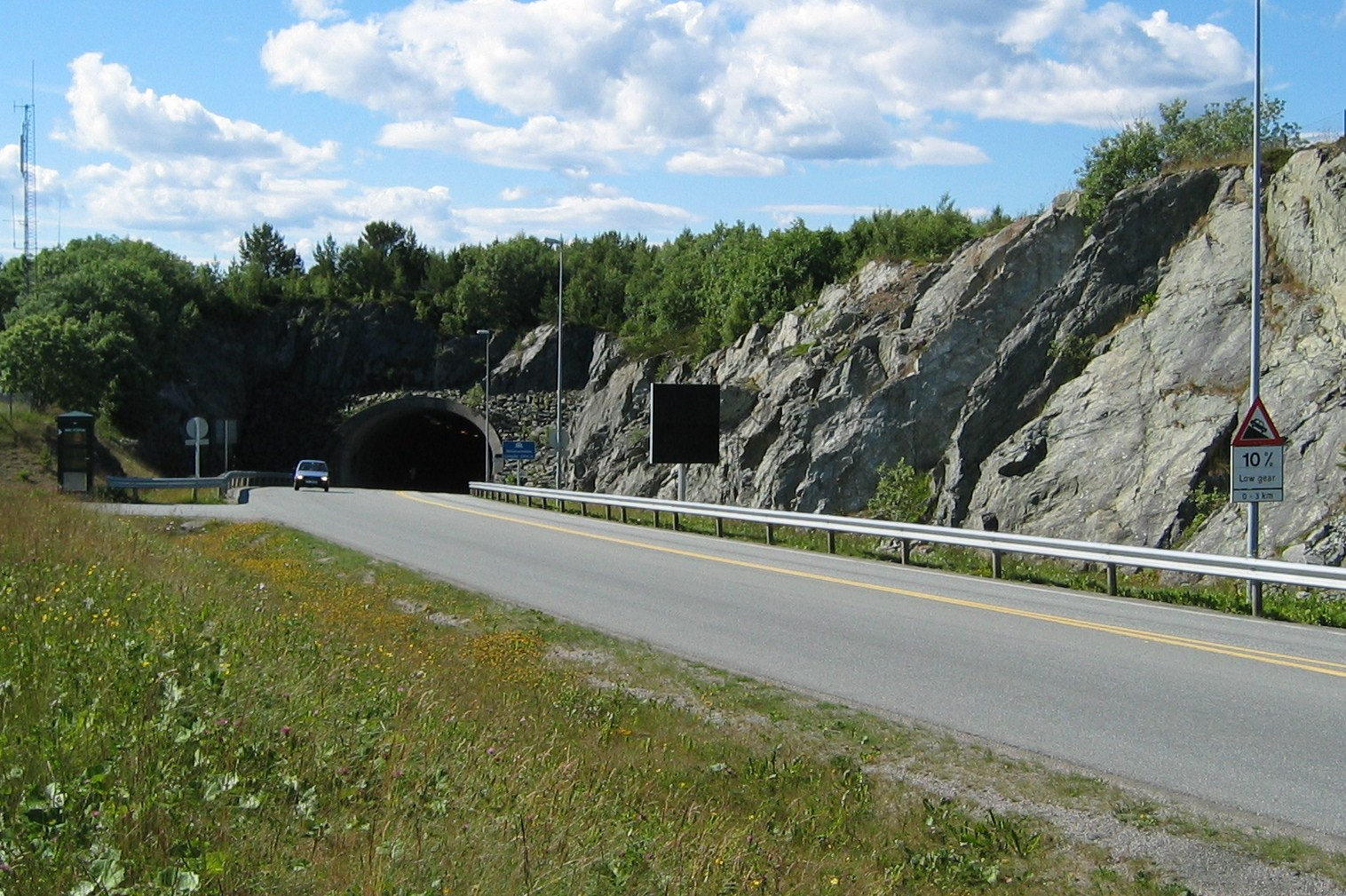 Hitratunnelen, western entrance (from Hitra)